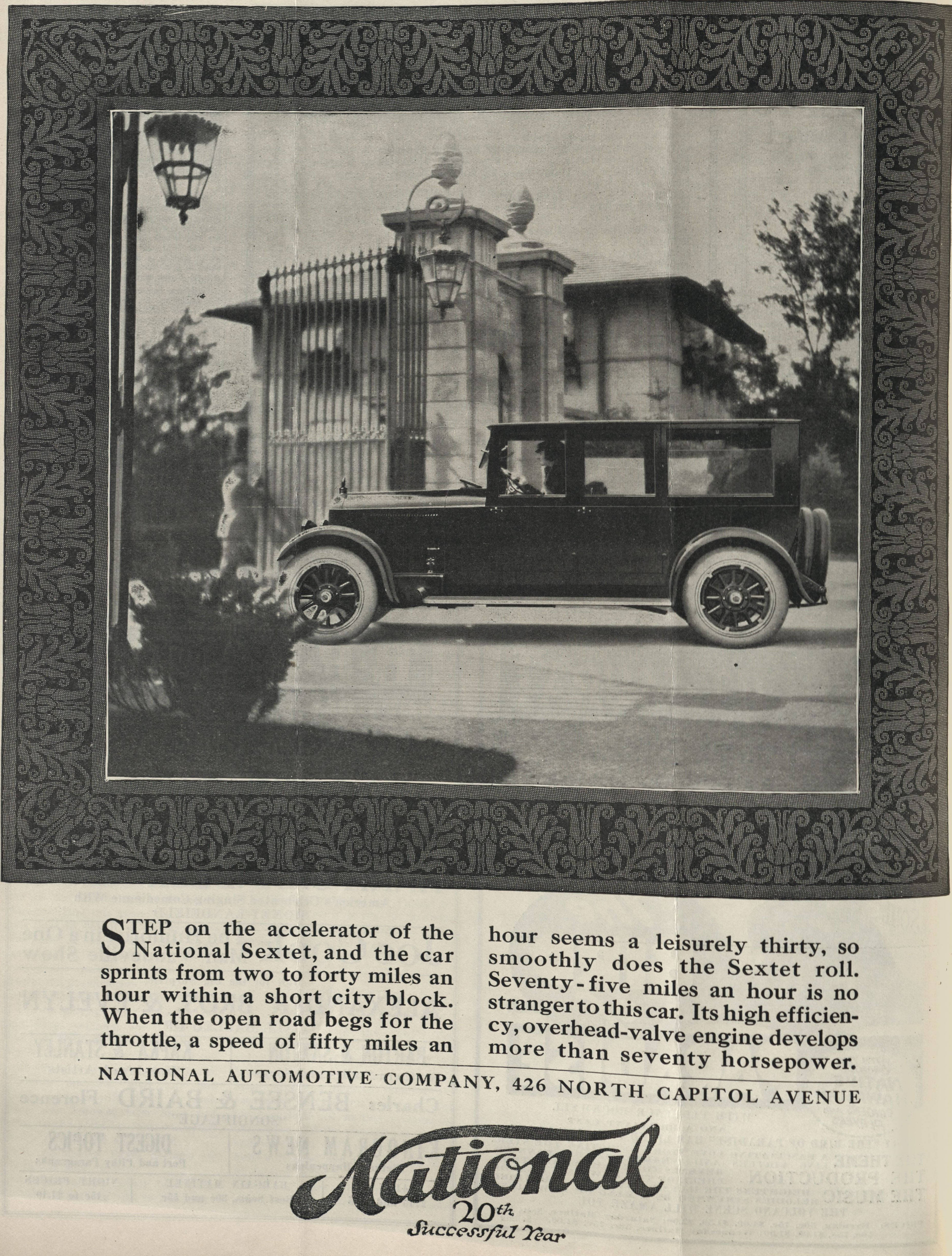 This is an issue of Topics, a magazine about literature, arts, music, and theatre as well as advertising about events and businesses in Indianapolis.